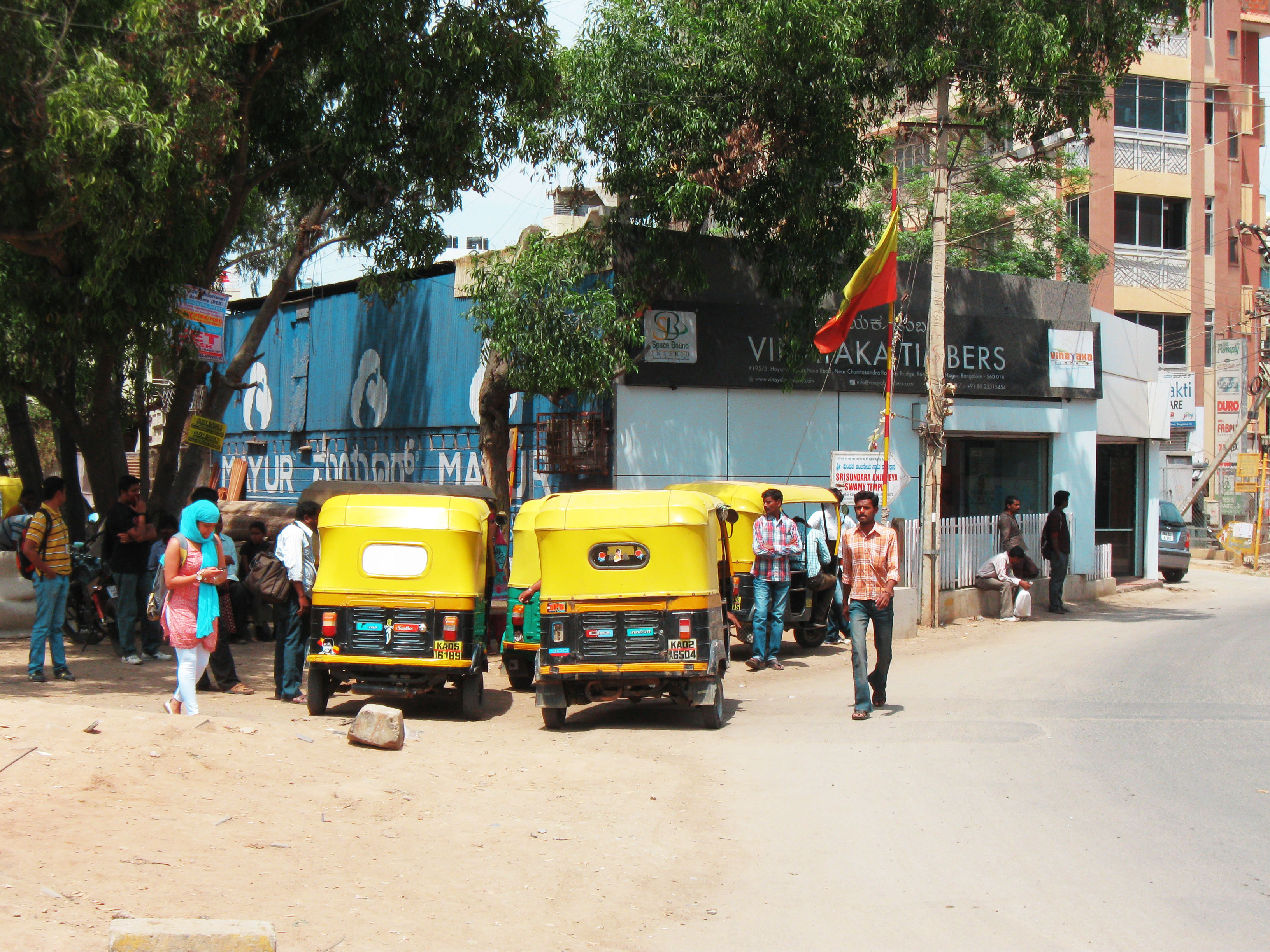 Auto Rickshaw Stand in Ramamurthy Nagar